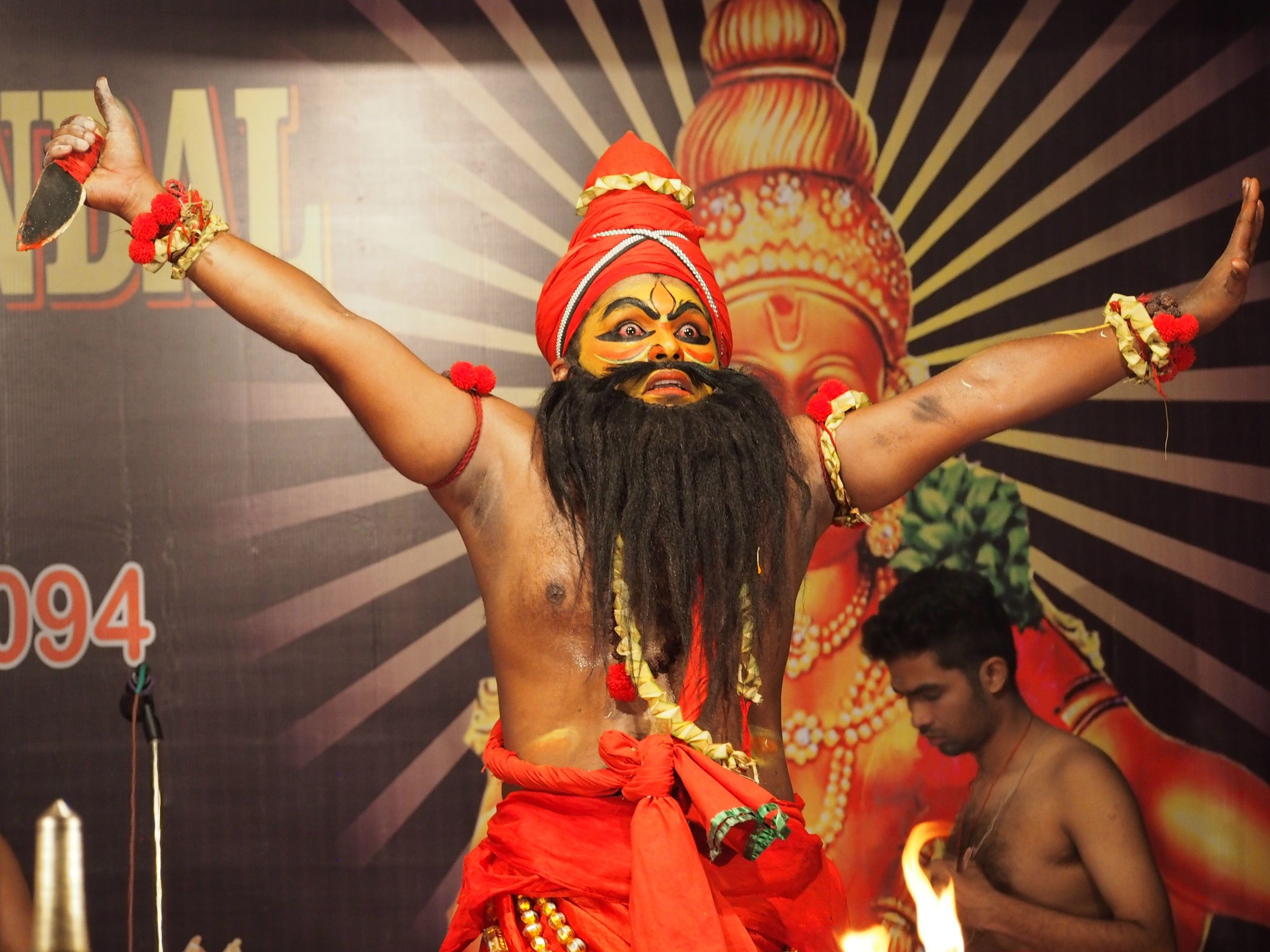 Malayan performing Nizhakuthu in Nizhakuthu Kathakali